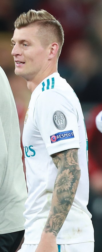 Toni Kroos